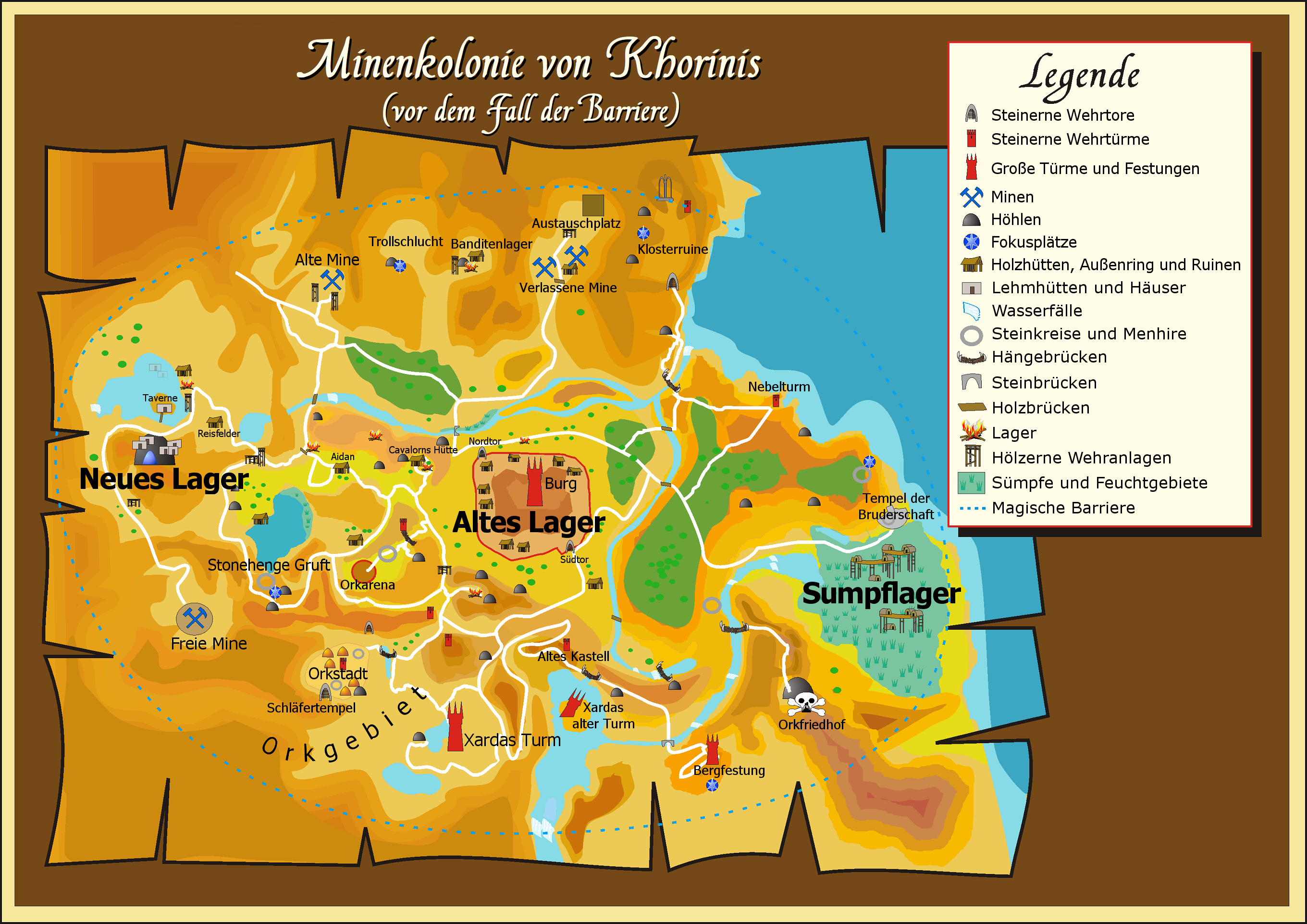 Map of the valley of the mines of the videogame Gothic (2001)